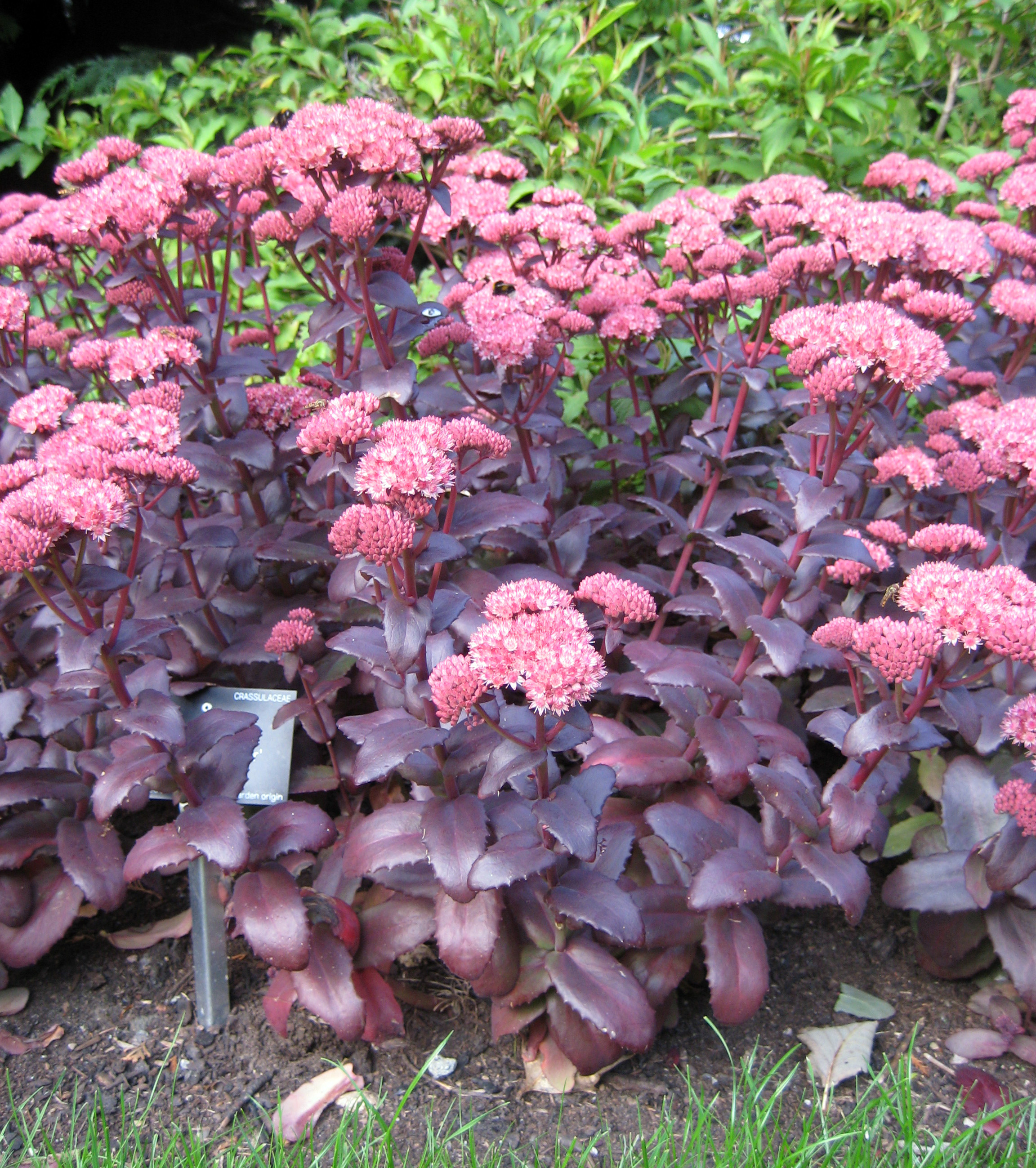 Sedum 'Purple emperor'. Royal Botanic Garden Edinburgh: Accession number 2005.0300 A